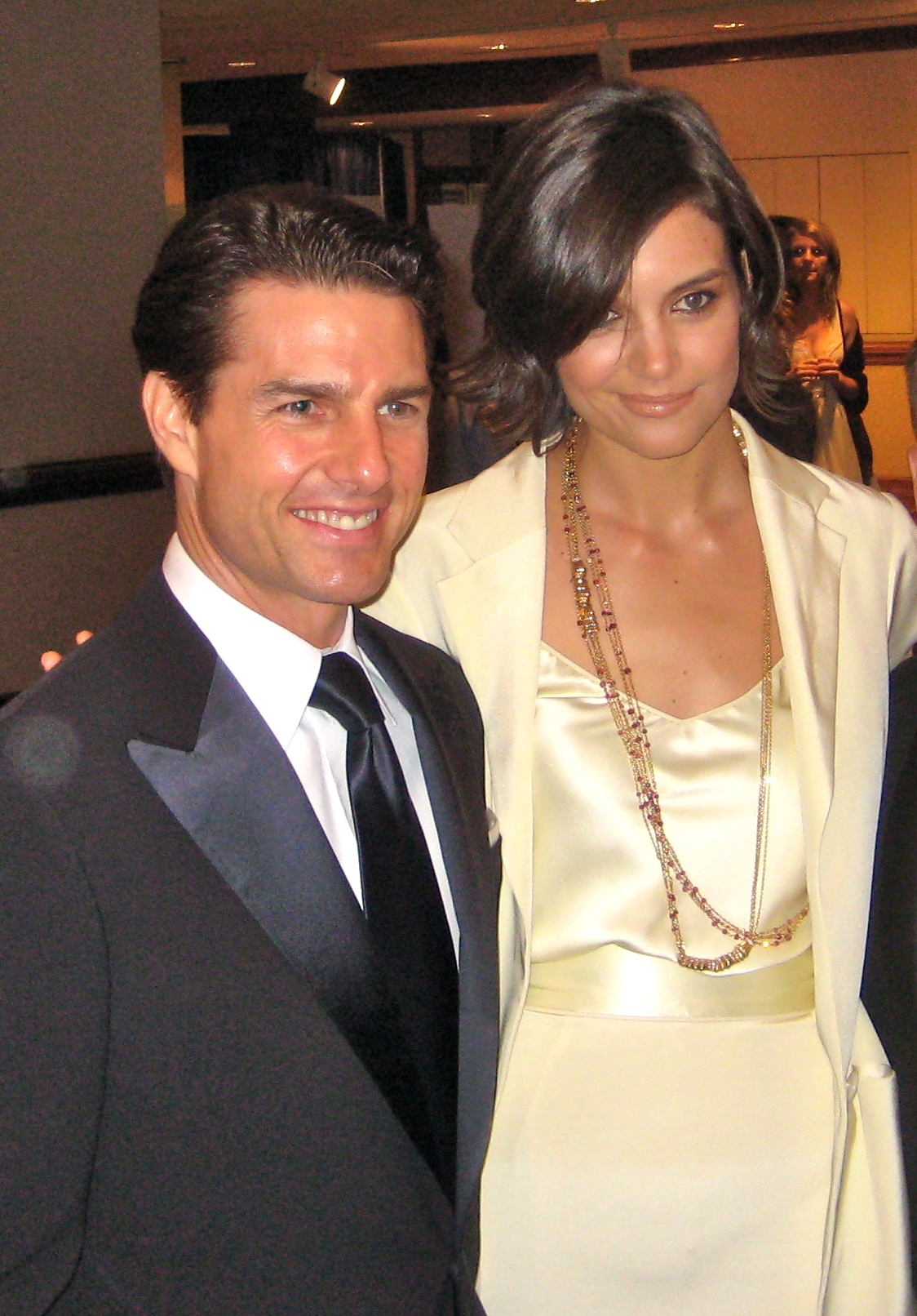 Cropped image of Tom Cruise and Katie Holmes. Photo taken at the White House Correspondents Dinner.